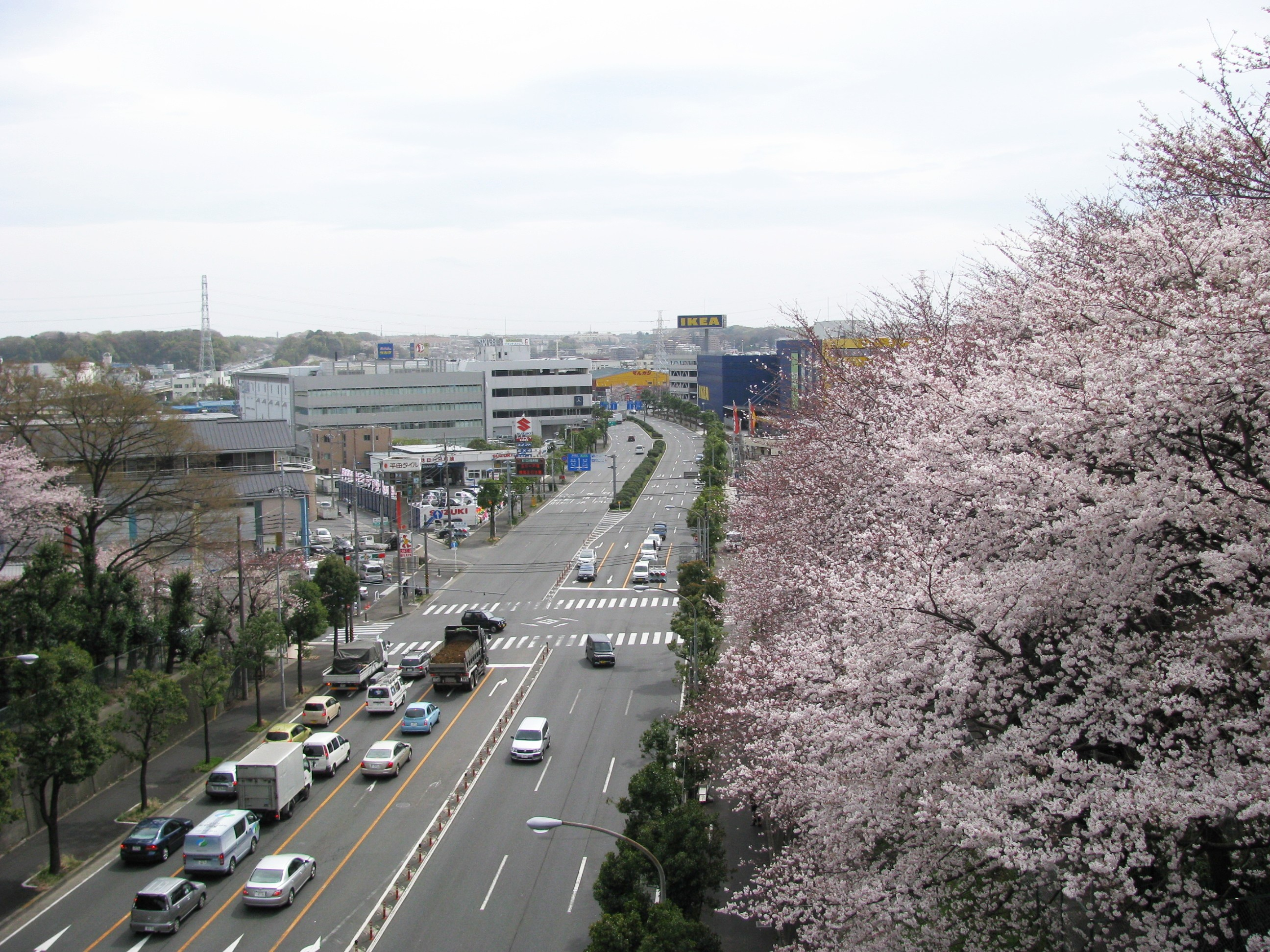 This lokated is Orimoto-cho in Tsuzuki-ku, Yokohama, Kanagawa, Japan.